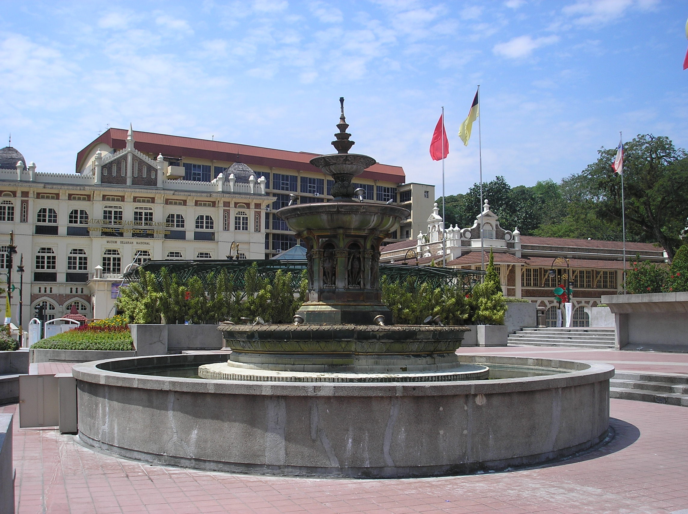 The Horse Fountain (built 1887) at Merdeka Square, Kuala Lumpur, Malaysia. Note the basin at the bottom is not part of the fountain's original design, and was evidenced to have cracks patched up.